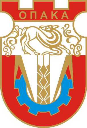 Emblem of Opaka, Bulgaria